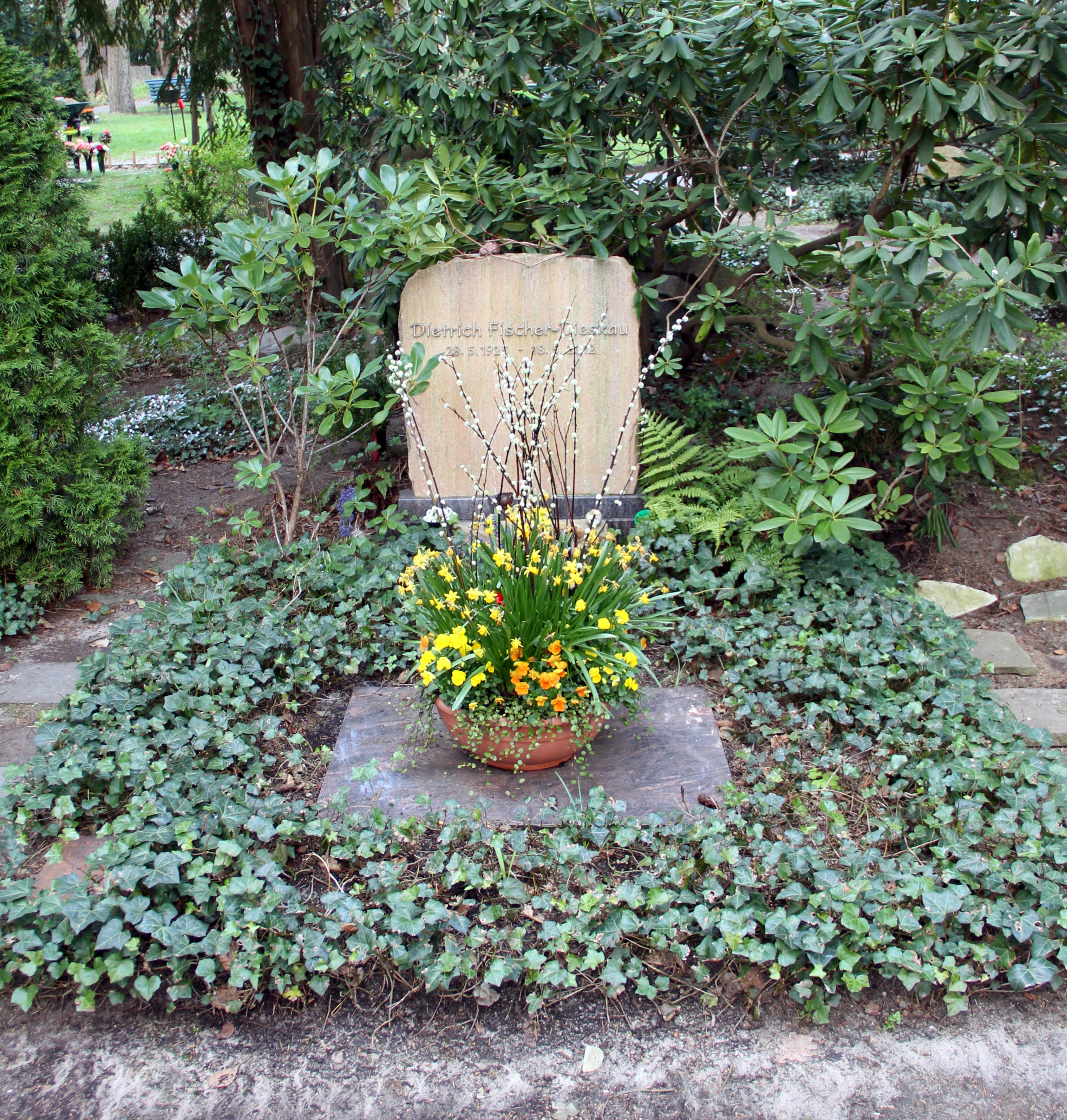 Grave of honor, Dietrich Fischer-Dieskau, Trakehner Allee 1, Berlin-Westend, Germany